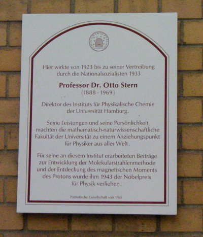 Commemorative plaque for the physicist Otto Stern on the wall of what is now part of the institutes of physics of Hamburg University